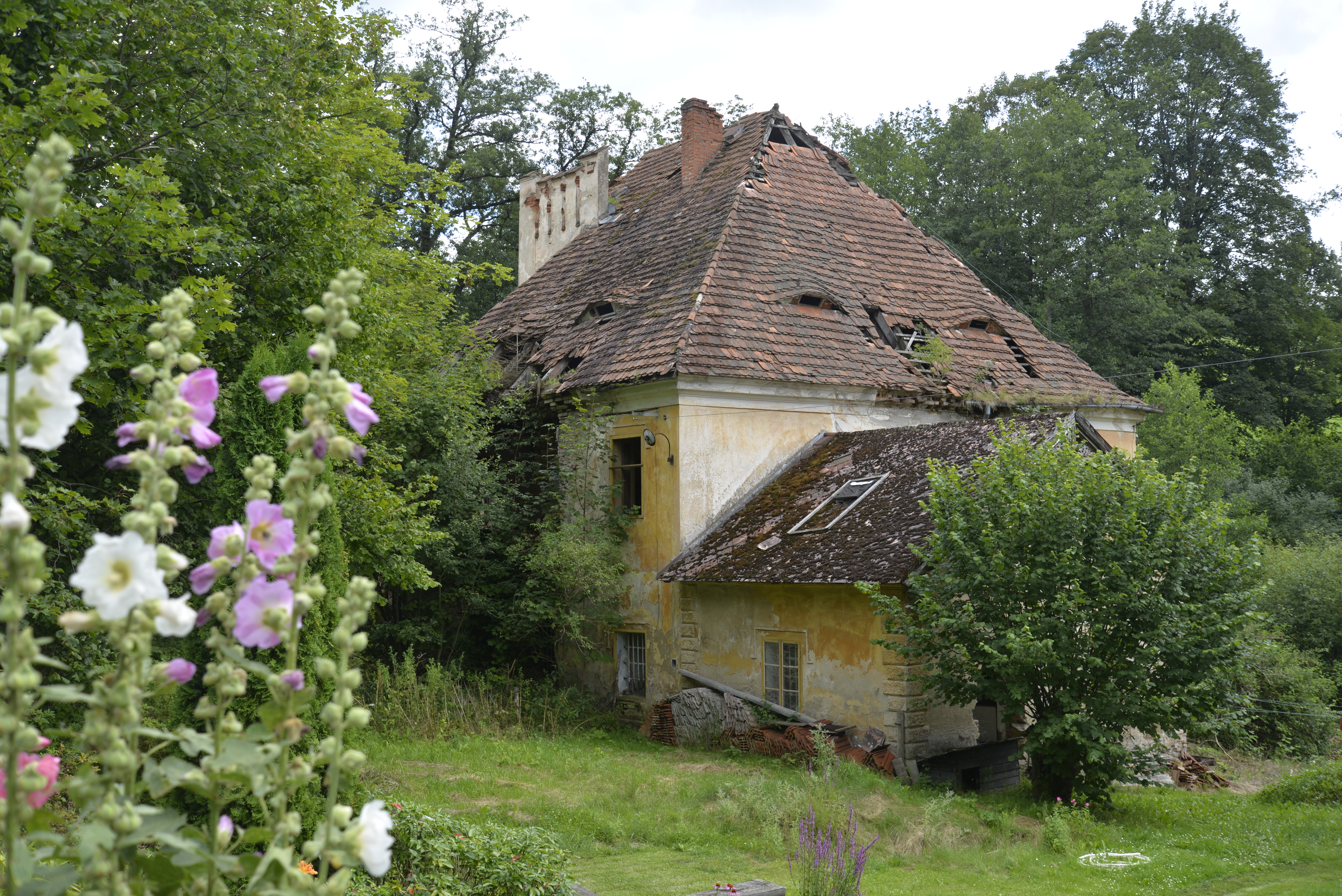 Castle in Kojšice, Klatovy District